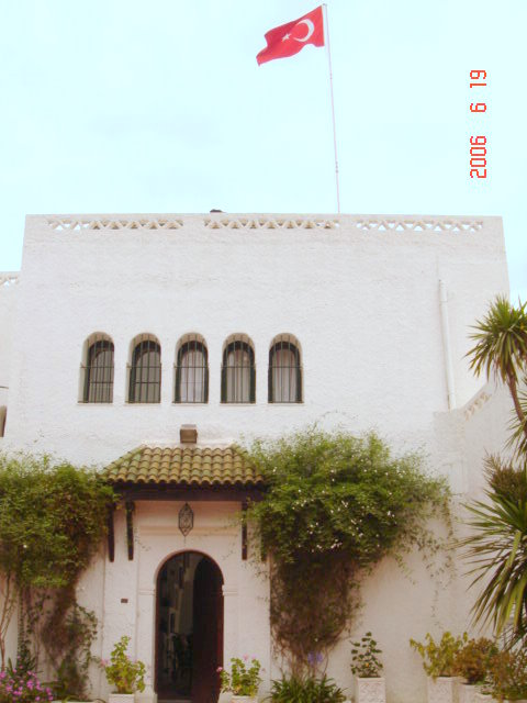 Turkish Embassy in Algiers, Algeria.